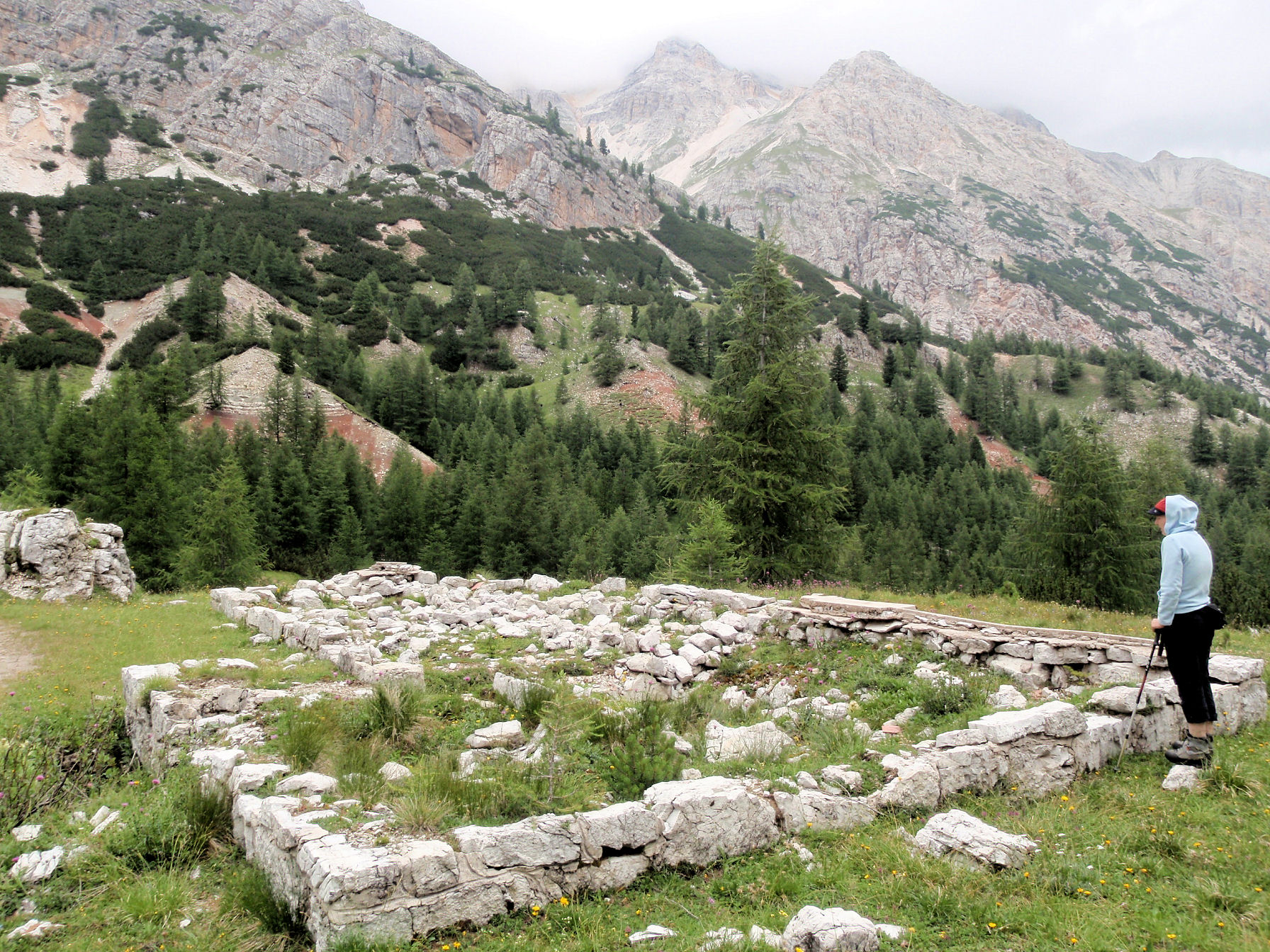 Ruin of the Wolf-Glanvell Hut, Travenanzestal, Ampezzaner Dolomiten